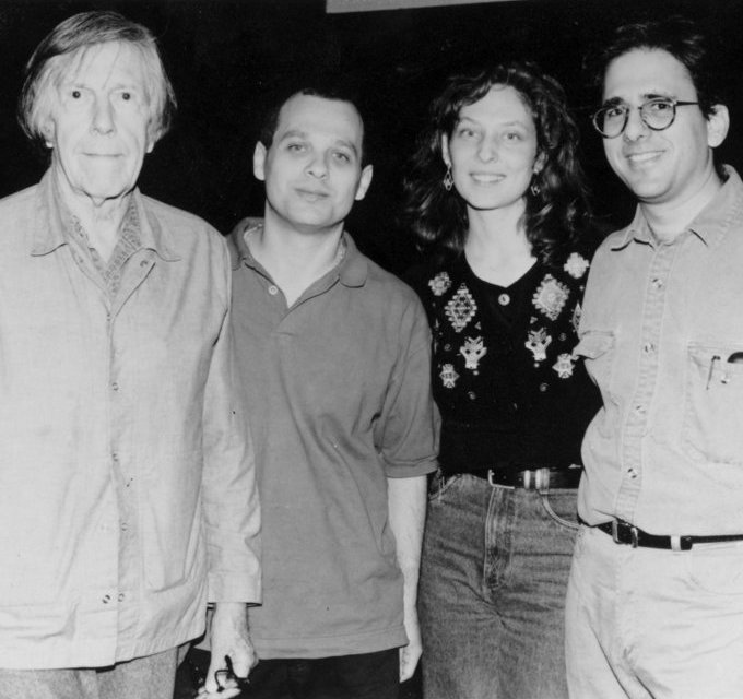 While students at Yale studying musical composition, best friends and future Bang on a Can collaborators, David Lang, Julia Wolfe, and Michael Gordon met composer John Cage. Julia Wolfe and Michael Gordon are husband and wife.